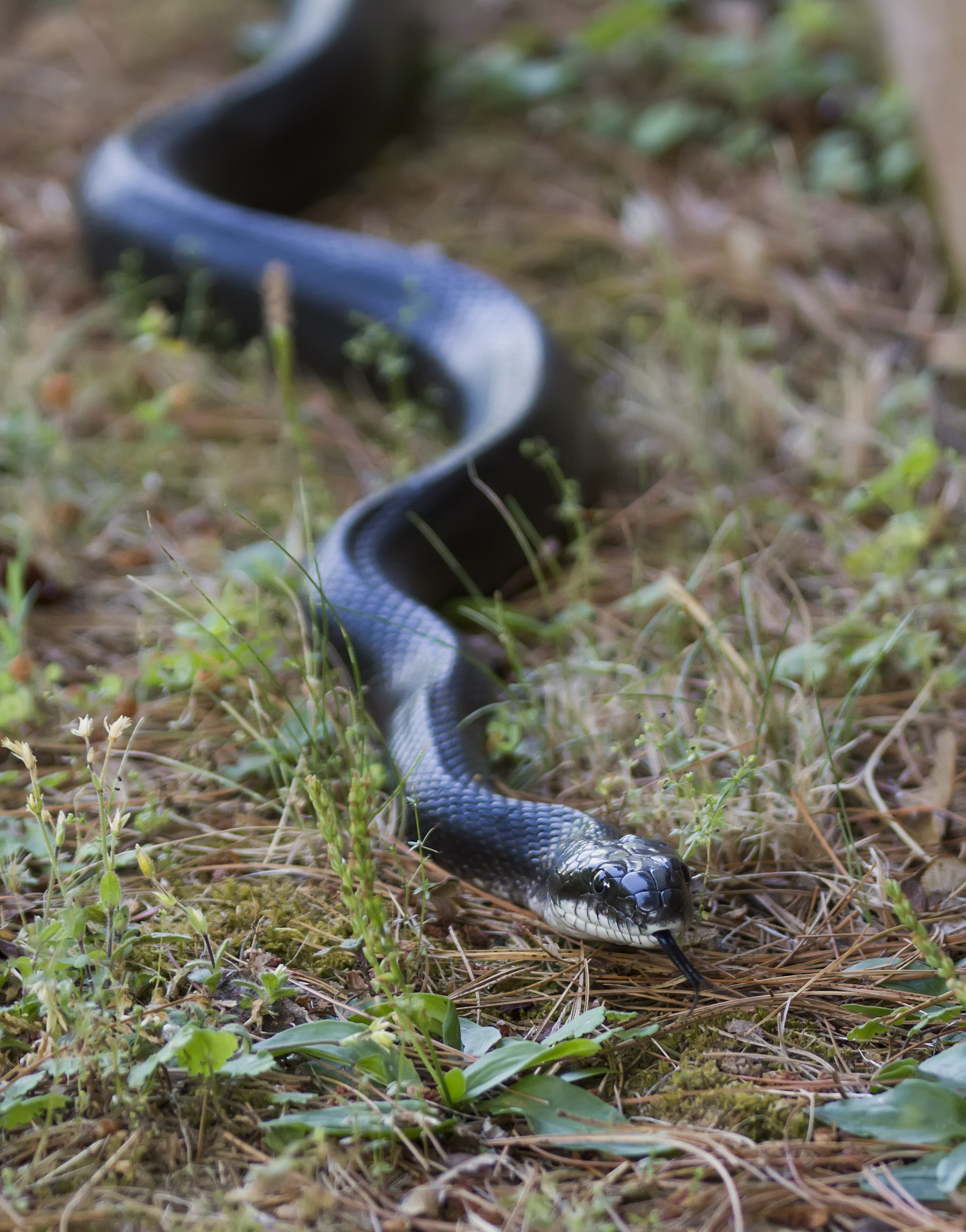 Black Rat Snake